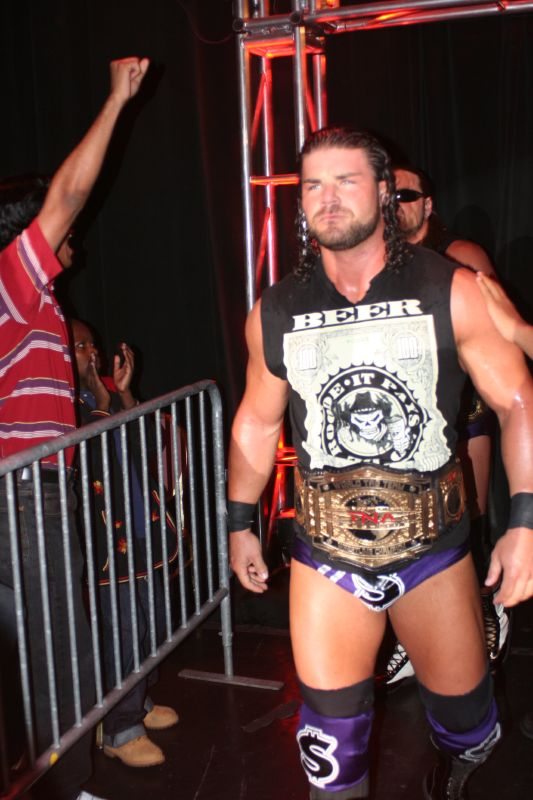 Robert Roode, wearing the TNA Tag Team Championship belt, at a TNA house show September 6, 2008